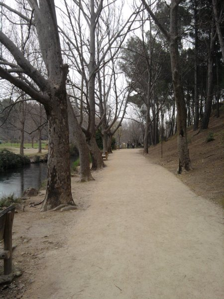 Nature place in Caravaca de la Cruz